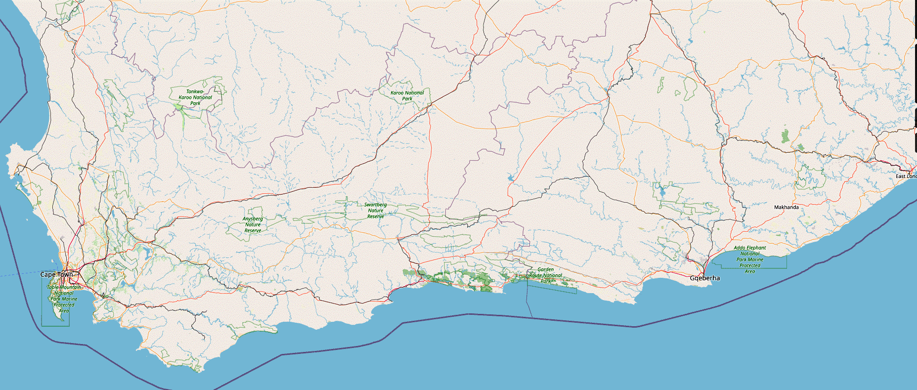 Map showing the area around the Garden Route in the Republic of South Africa